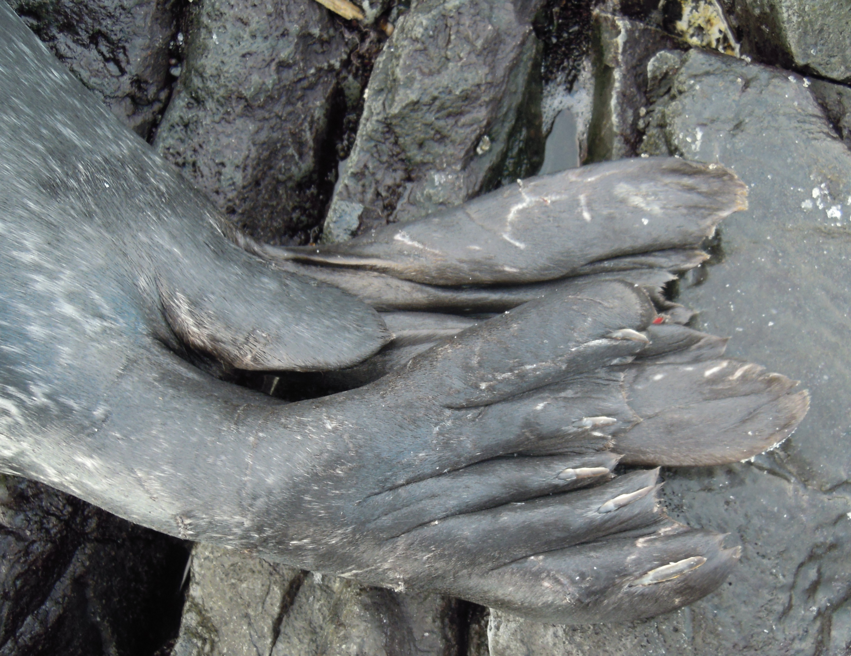 Harbour seal (Phoca vitulina) Hind flippers, Larvik, Norway